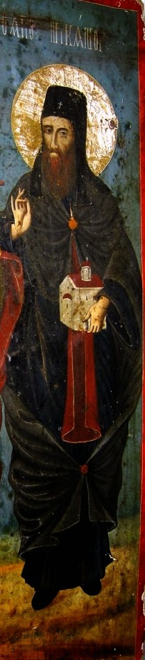 Saint_Dionisius_of_Olympus_and_Saint_Nicanor Icon in St. Athanasius Church in Germas (Loshnitsa)